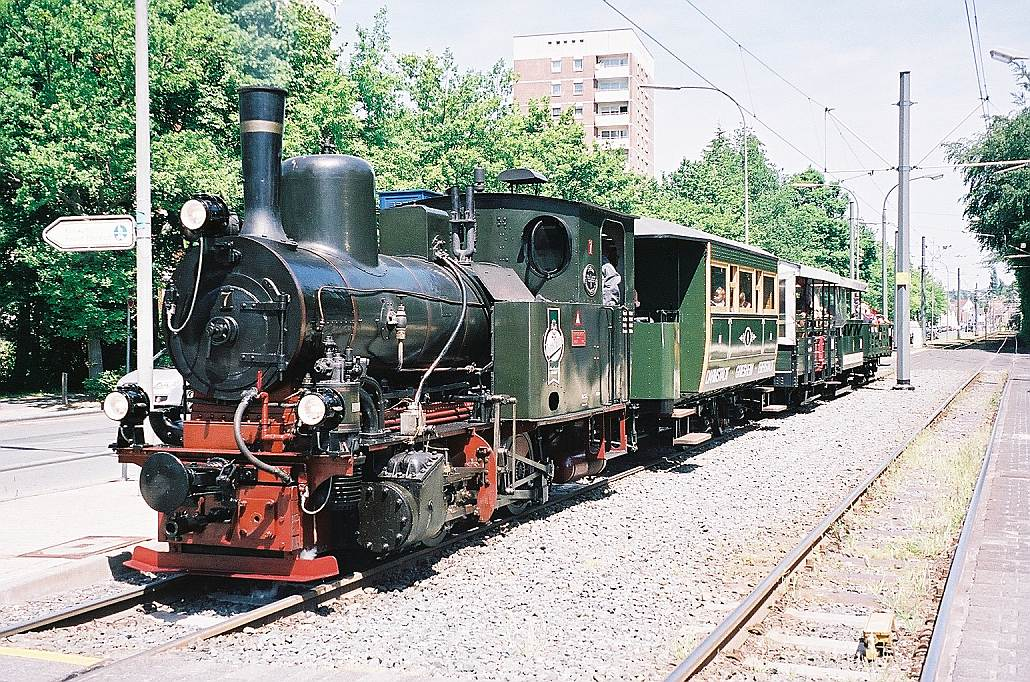 Steam tram in Darmstadt, germany My own photo from 30-may-2004